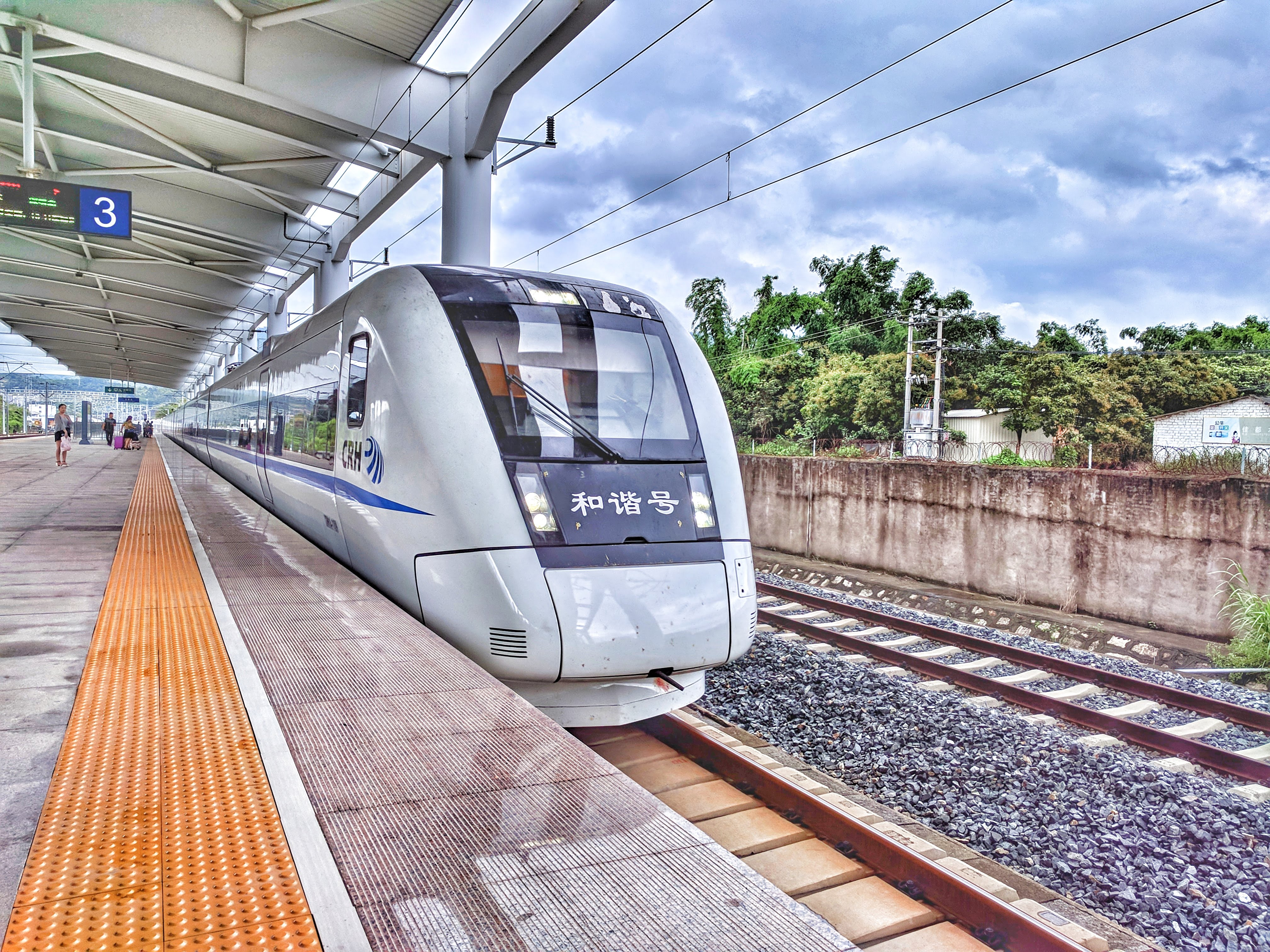 CRH 1A in Yunxiao Station